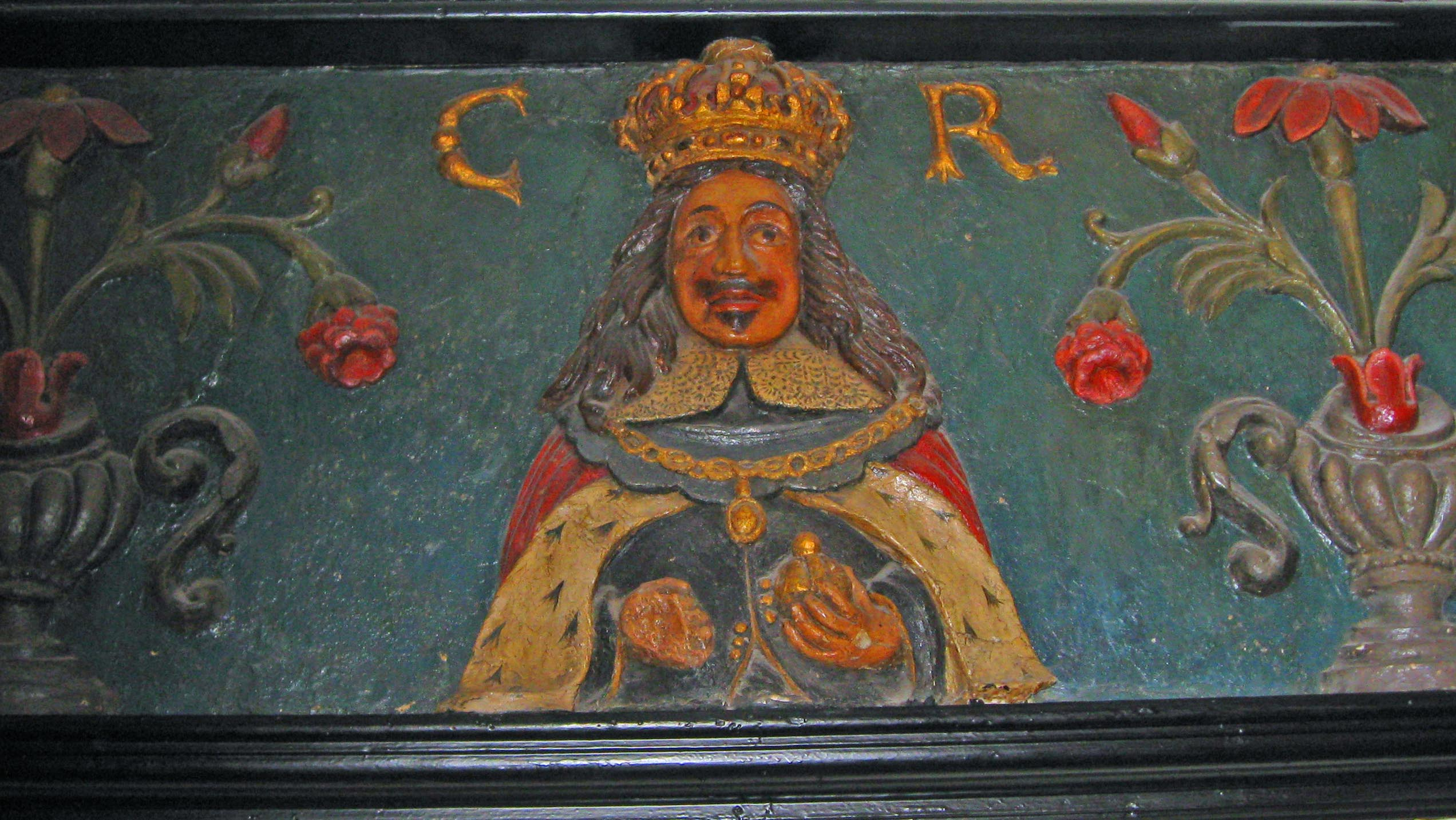 Bust of "King CharlesI" in the bar of the King's Head